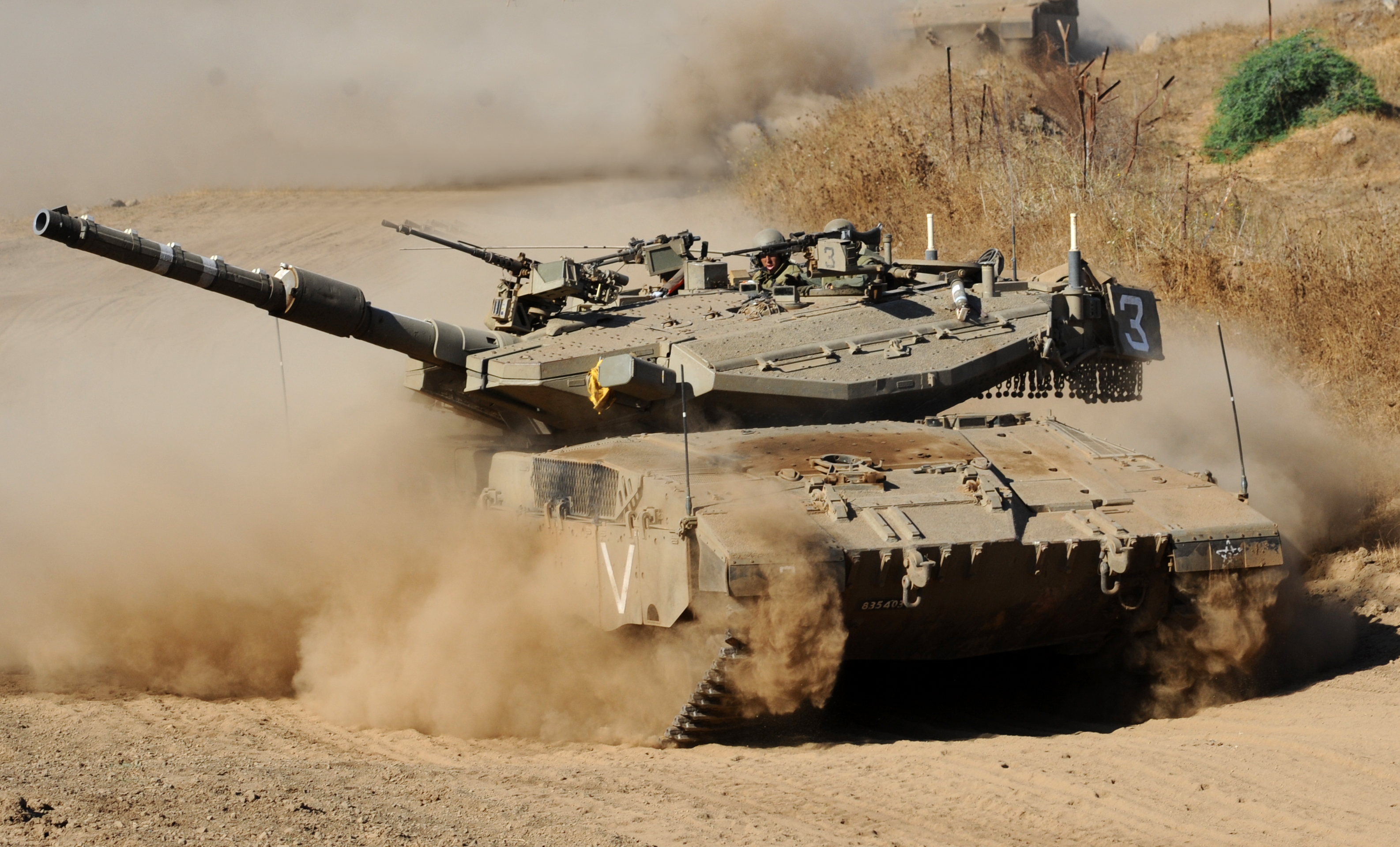 Israel Defense Forces Merkava Mk. 3d Baz tank, based on File:Flickr - Israel Defense Forces - 13th Battalion of the Golani Brigade Holds drill at Golan Heights.jpg